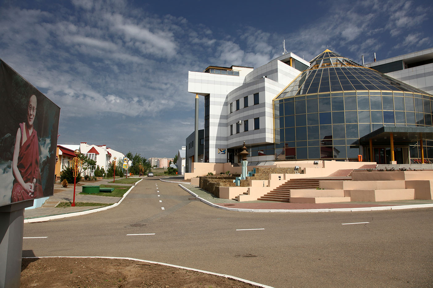 The main building of the City Chess complex at Elista, Republic of Kalmykia, Russian Federation